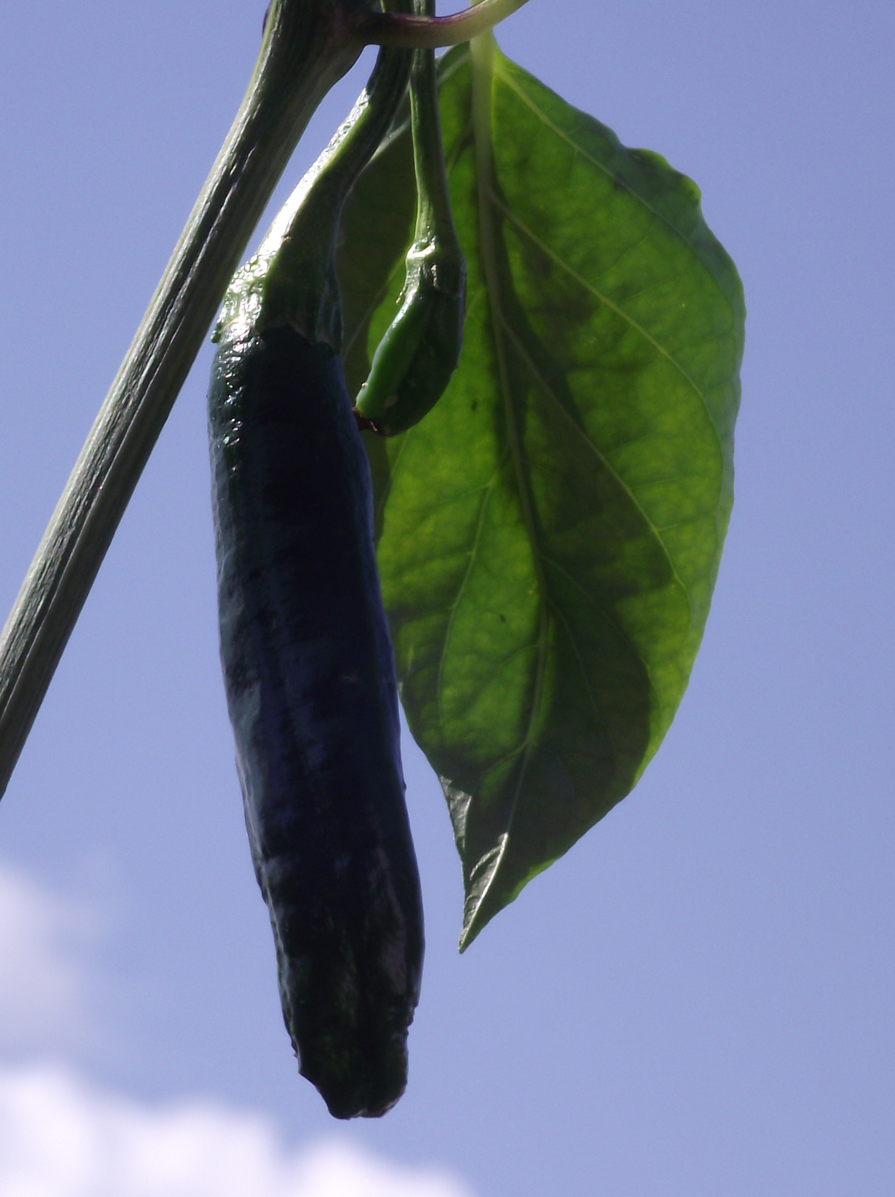 About three months old Chilaca - Pasilla.